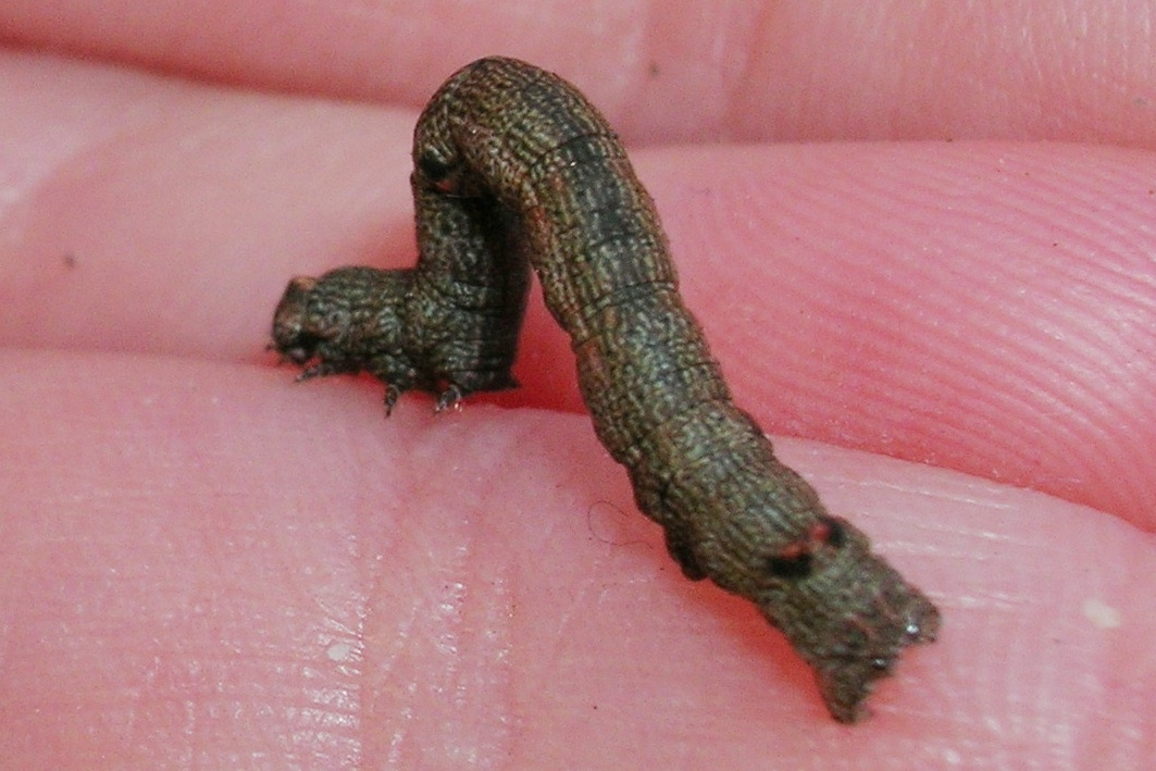 Larvae of Twig Looper (Ectropis excursaria) at Forest Hills, Victoria, Australia. Photographed on 7 May 2009. ©Stephanie Sims